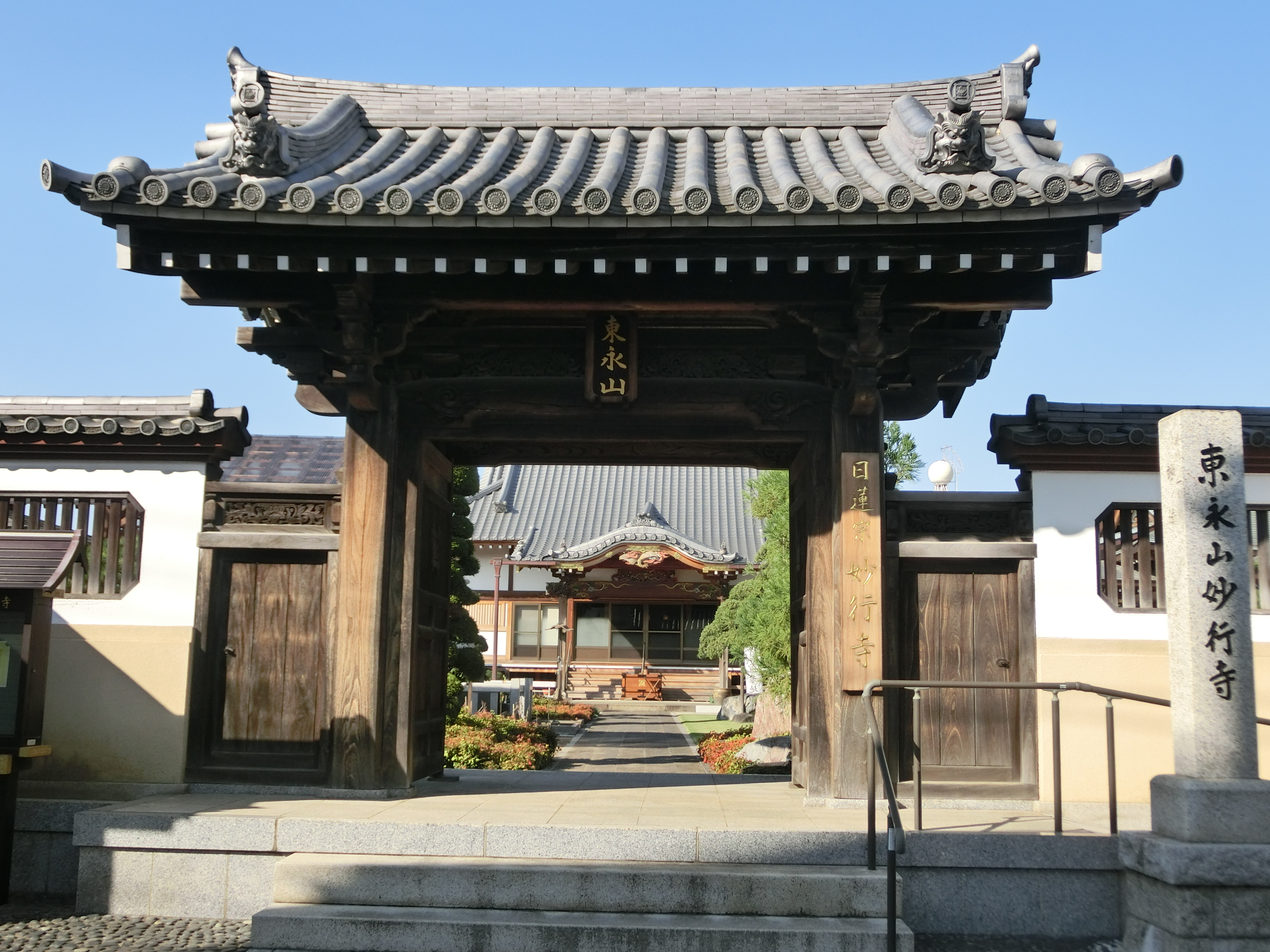 Myogyo-ji (Saitama)